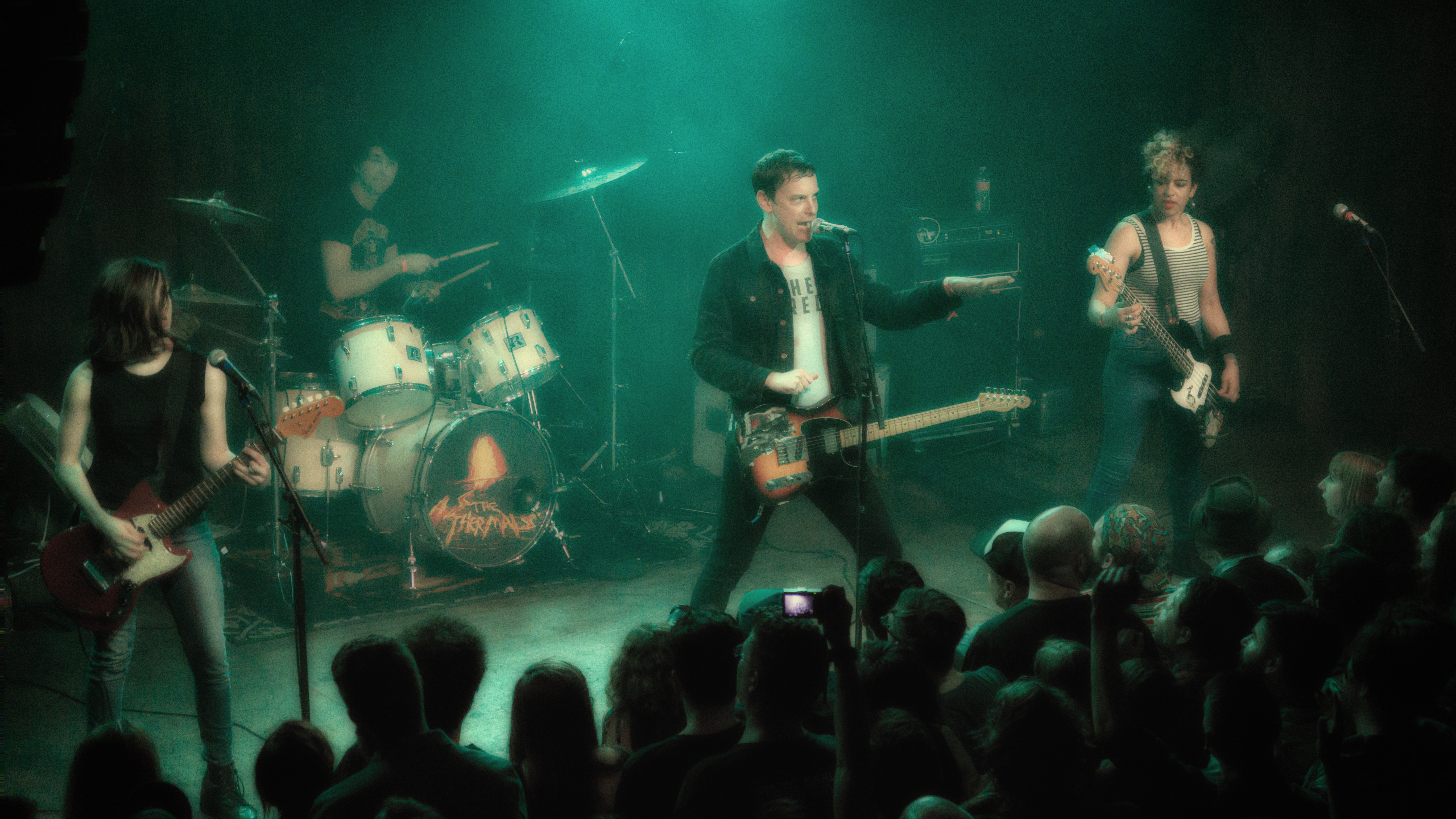 The Thermals